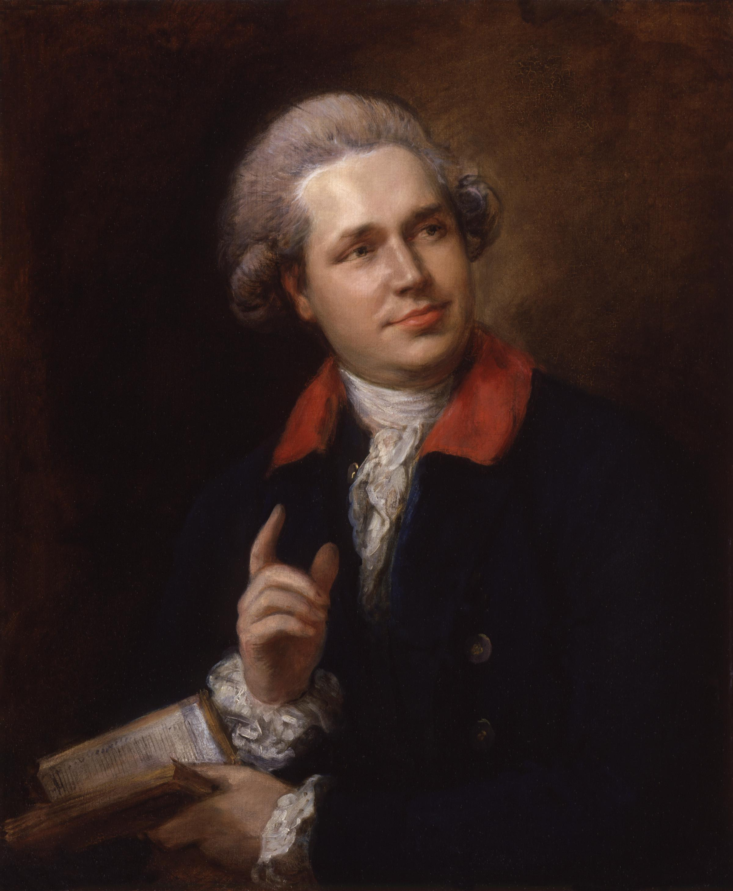 Portrait of John Henderson, given to the National Portrait Gallery, London in 1895. All images in this batch have been confirmed as author died before 1939 according to the official death date listed by the NPG.